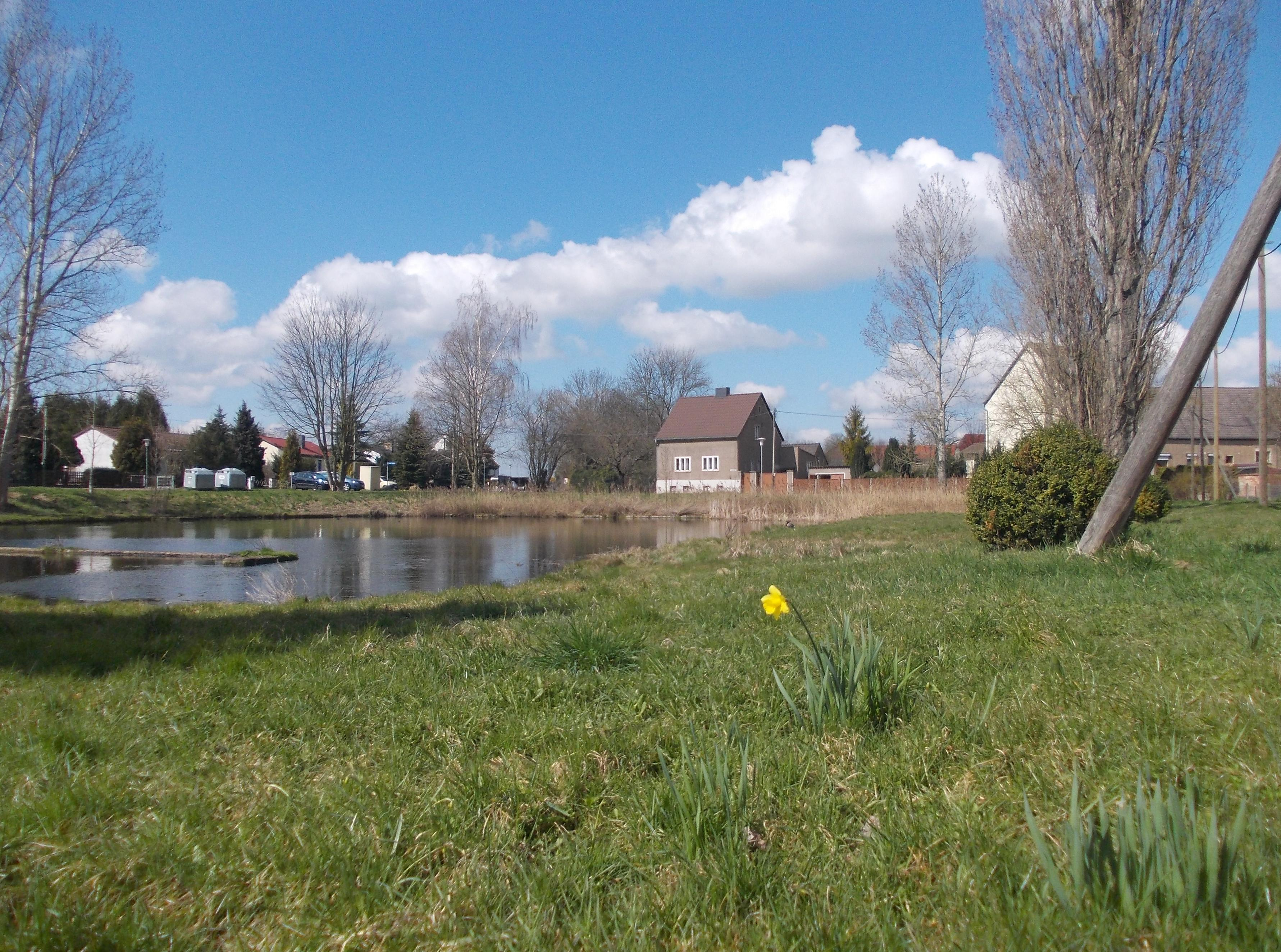 Pond in Obermaschwitz (Landsberg, district: Saalekreis, Saxony-Anhalt)